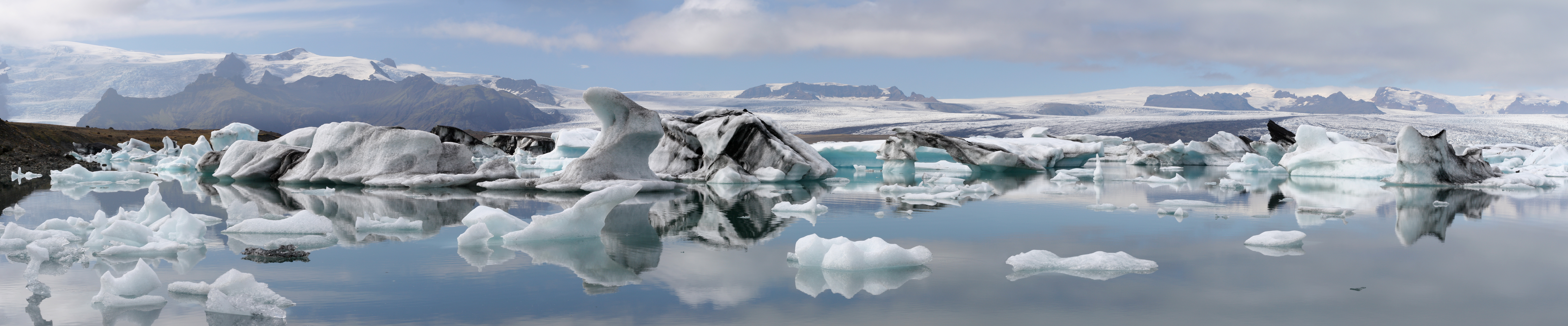 Panorama of the Jökulsárlón glacial lake in Iceland Česky: Panoramatický snímek ledovcového jezera Jökulsárlón na Islandu